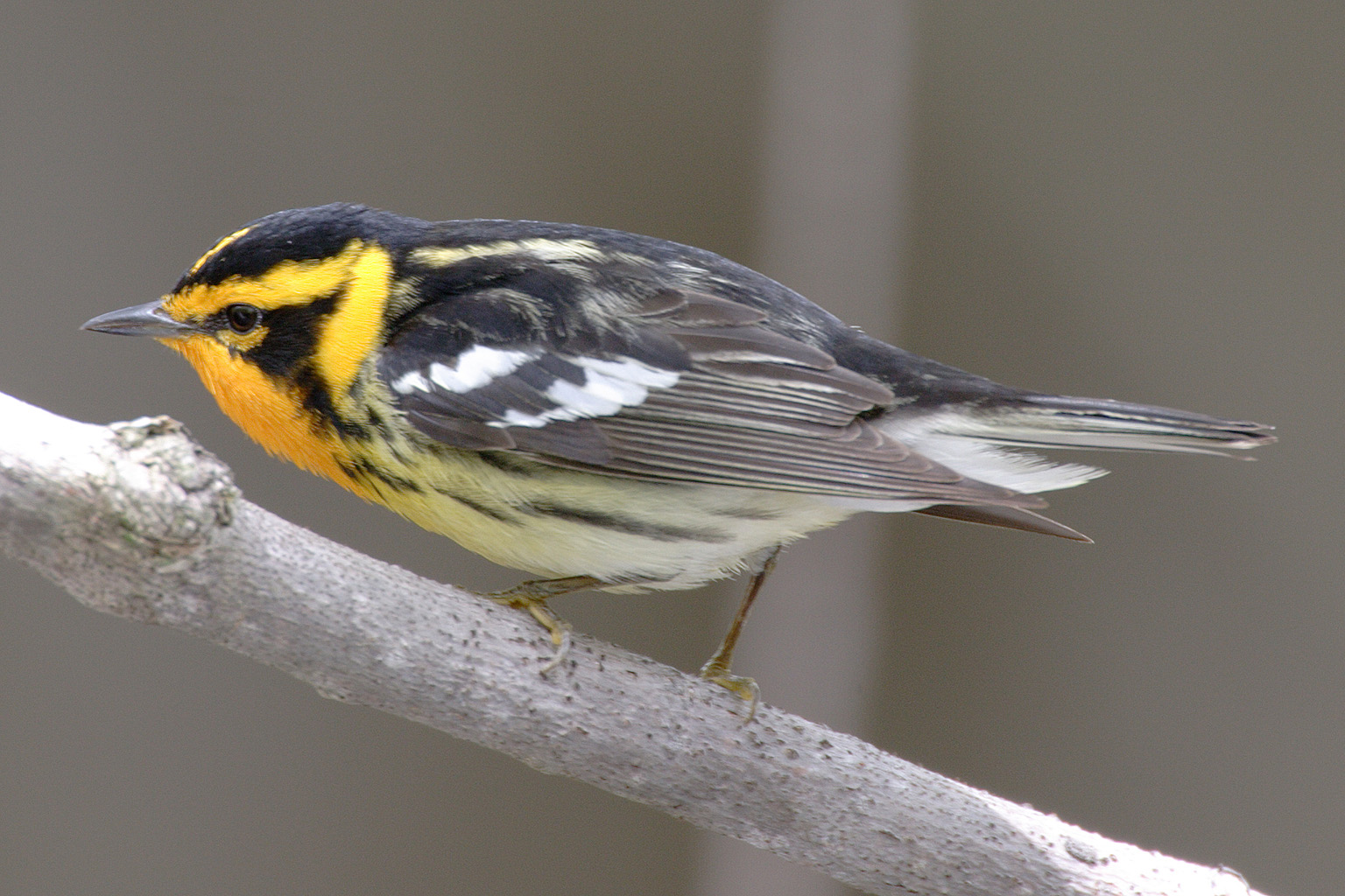 Blackburnian Warbler (Dendroica fusca). Rondeau Provincial Park, Ontario, Canada.